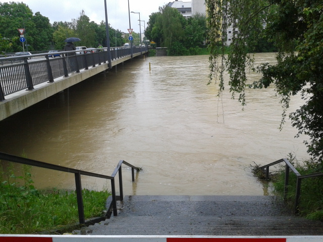 Tidal pool in Landshut (Flutmulde)